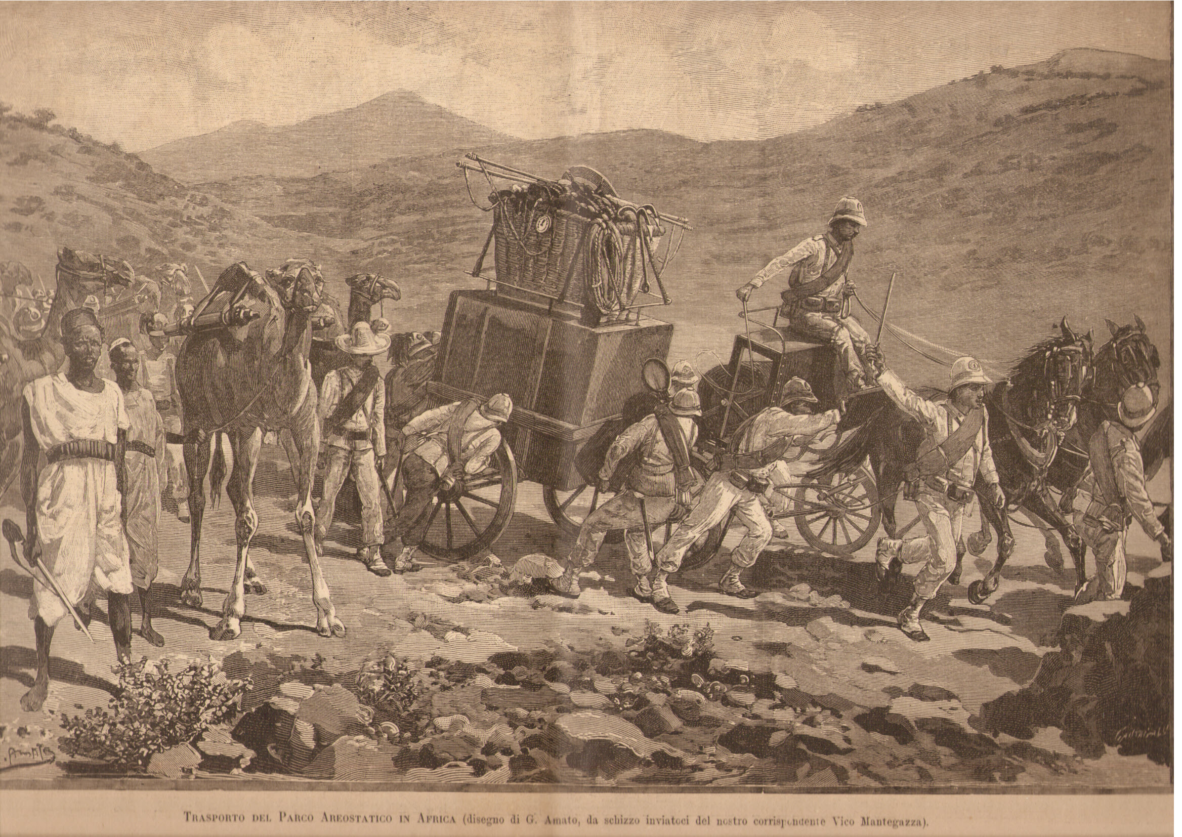 March of equipment aerostatic Italian in Eritrea in 1888